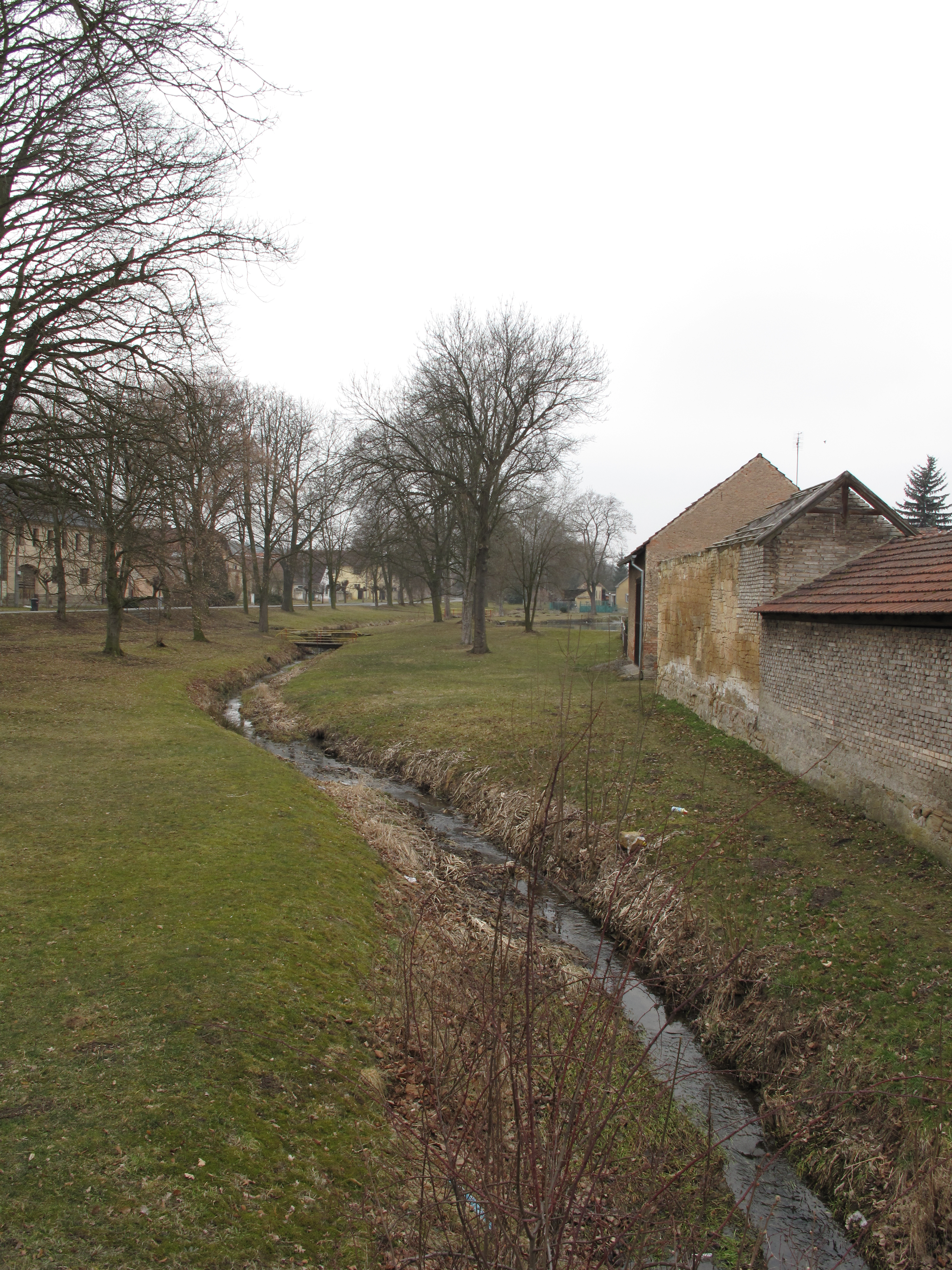 Nesuchyňský potok (stream) in Nesuchyně village, Rakovník District, Czech Republic. Project: Vodstvo